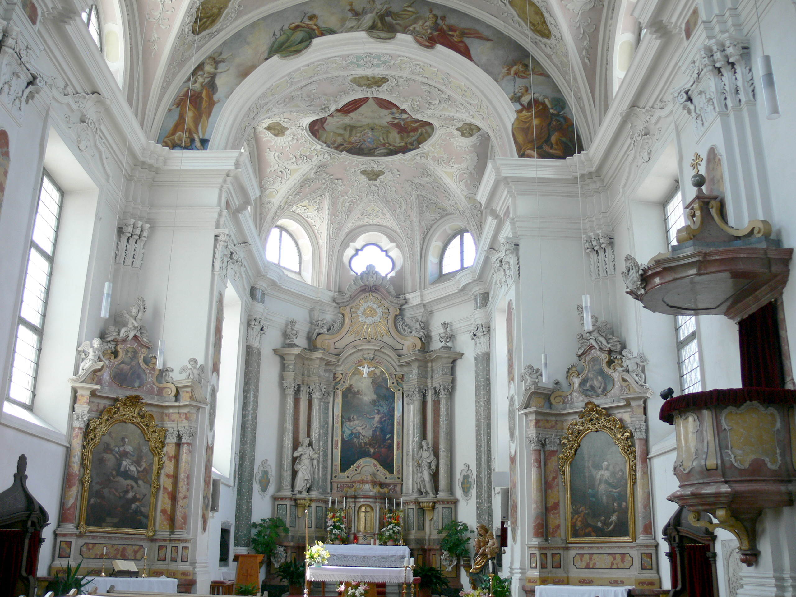 Bruneck - Spital church of the Holy Spirit. Interior ( 1760 )